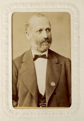 Albert Ludwig Serlo (born February 14, 1824 in Crossen an der Oder, † November 14, 1898 in Charlottenburg) was a German miner and politician.